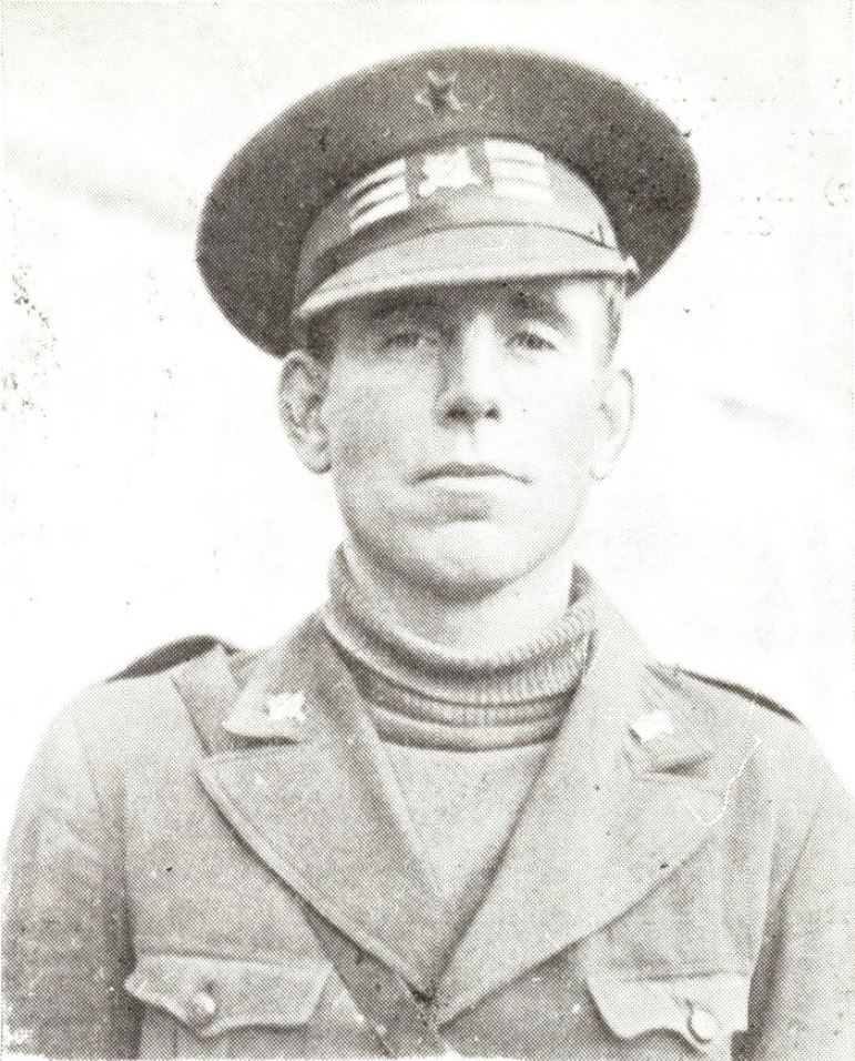 Photograph of Paddy O'Daire, Irish Republican volunteer during the Spanish Civil War, circa 1937. The subject of the image is in their Spanish Civil war uniform, placing it between 1936 and 1938.